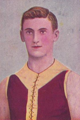 Cigarette card of Percy Trotter from the 1905 Wills Past and Present Champions series.